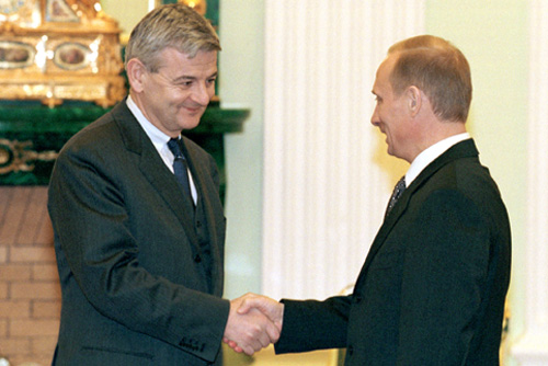 THE KREMLIN, MOSCOW. Vladimir Putin meeting Joschka Fischer, Germany's Foreign Minister.